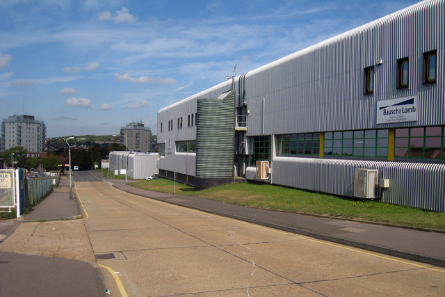 Industrial Building on Theaklen Drive. Bausch & Lomb, makers of contact lenses. Hollington Tower Blocks to rear 1506427